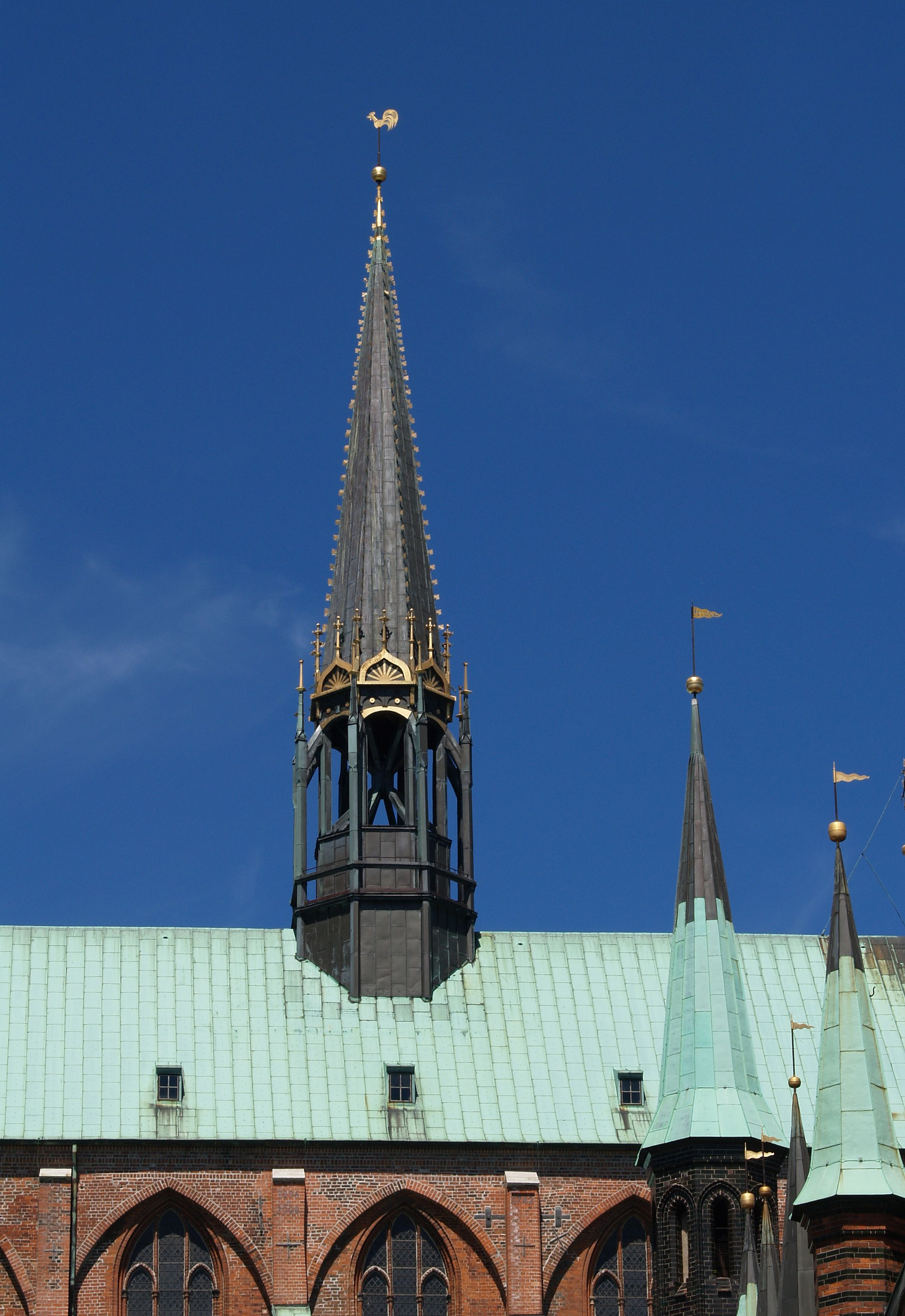 Luebeck, St Mary's church, detail of the roof